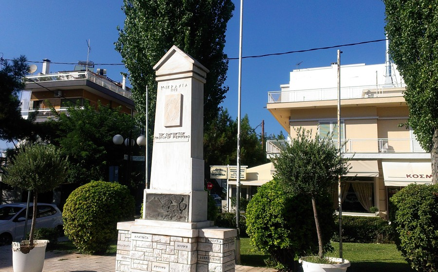 erythraia